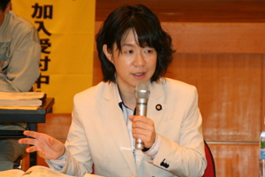 Yasue Funayama, Parliamentary Secretary of Agriculture, Forestry and Fisheries, attended the public meeting in Akaiwa City, Okayama Prefecture on May 14, 2010.(For terms of use, see 中国四国農政局/リンクについて・著作権.)